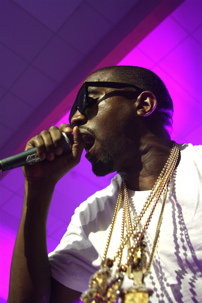 Kanye West performing at South by Southwest on March 21, 2009 in Austin, Texas.